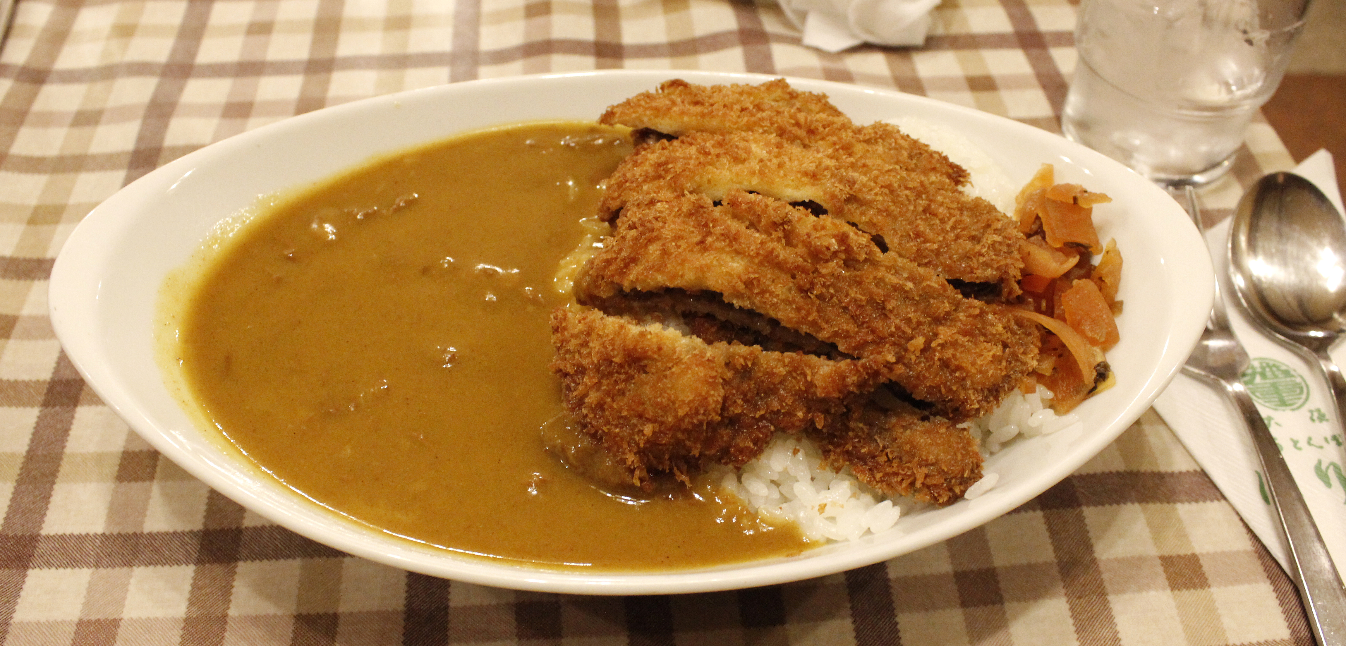 @Osaka, Japan